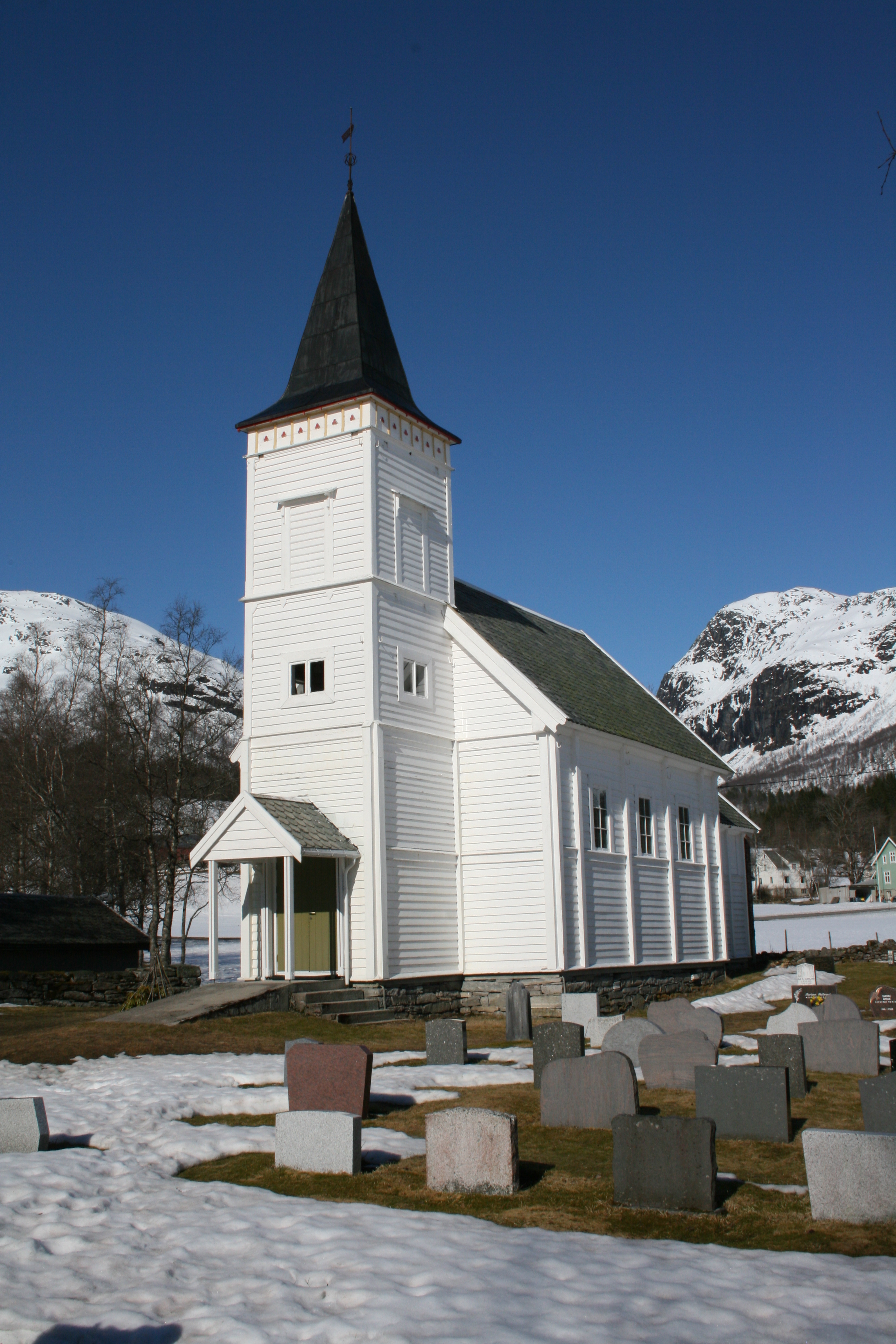 Haukedalen church in Førde kommune, Sogn og Fjordane, Norway.